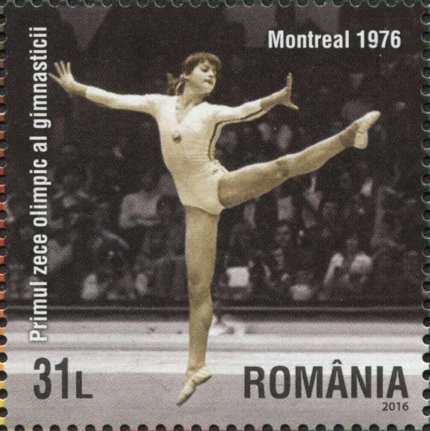 The First Olympic 10 of Gymnastics, Nadia Comăneci